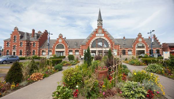 La gare; Albert, Picardie, Somme, France; ; ref: PM_093317_F_Albert; ; Photographer: Paul M.R. Maeyaert; © Paul M.R. Maeyaert; ; Cultural heritage; Cultural heritage/Modernism; Europeana; Europe/France/Albert (Somme)